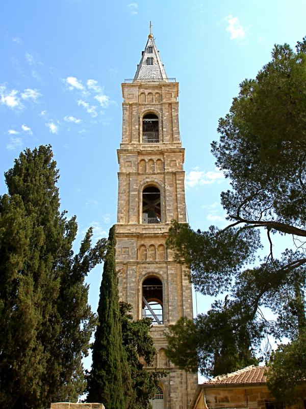 The Russian Monastery of Ascension on the Mount of Olives. Jerusalem.